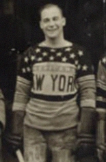 Charlie Conacher, player of the "New York Americans" in 1929